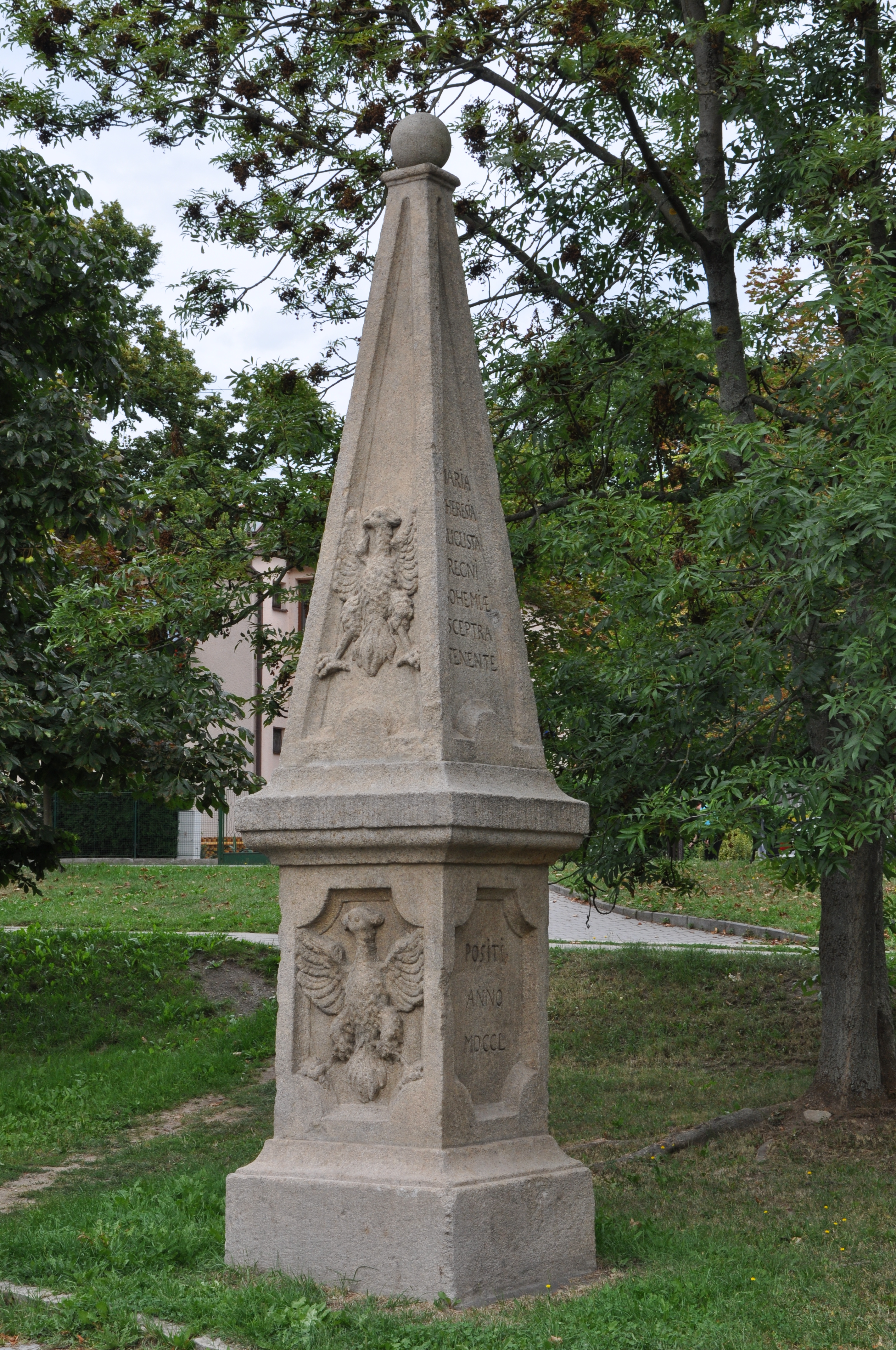 Boundary pylon: Moravia-Bohemia border, Jihlava